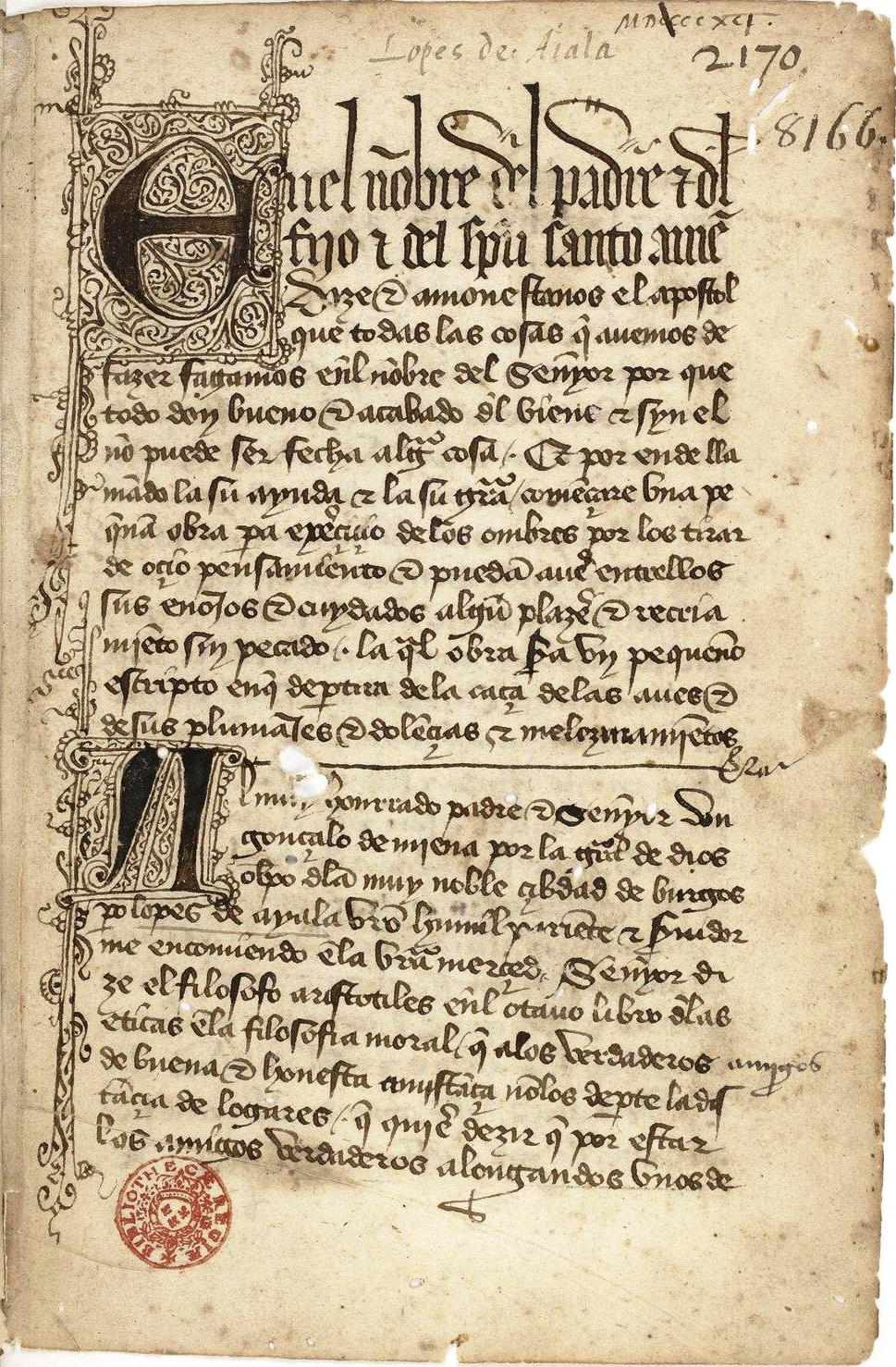 First page of the manuscript of the book Caça de las Aves